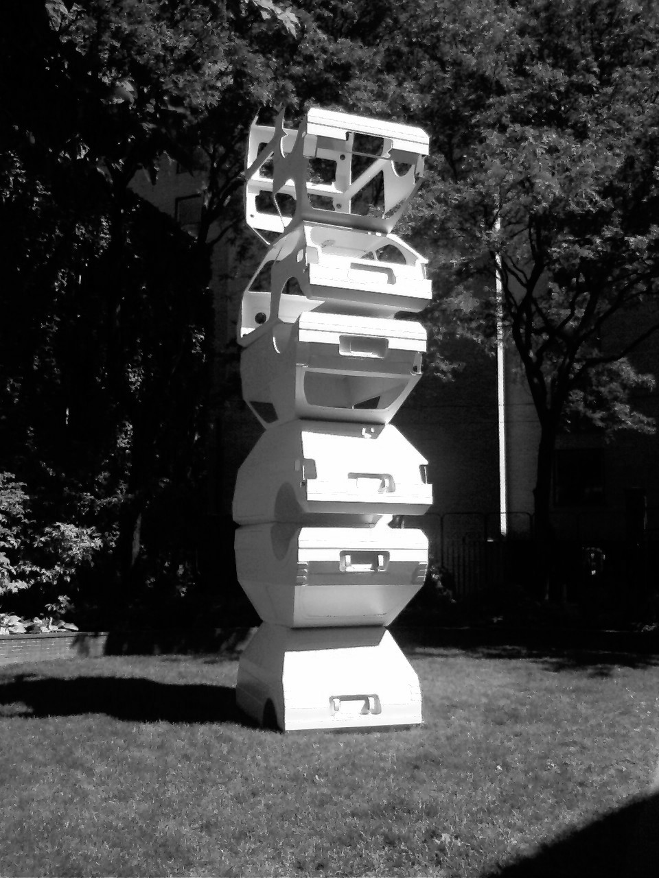 Photo taken of the Jed Lind sculpture "Gold, Silver & Lead" on display in the Toronto Sculpture Garden. Converted to Black and White/Greyscale using GIMP. The original sculpture is painted white.